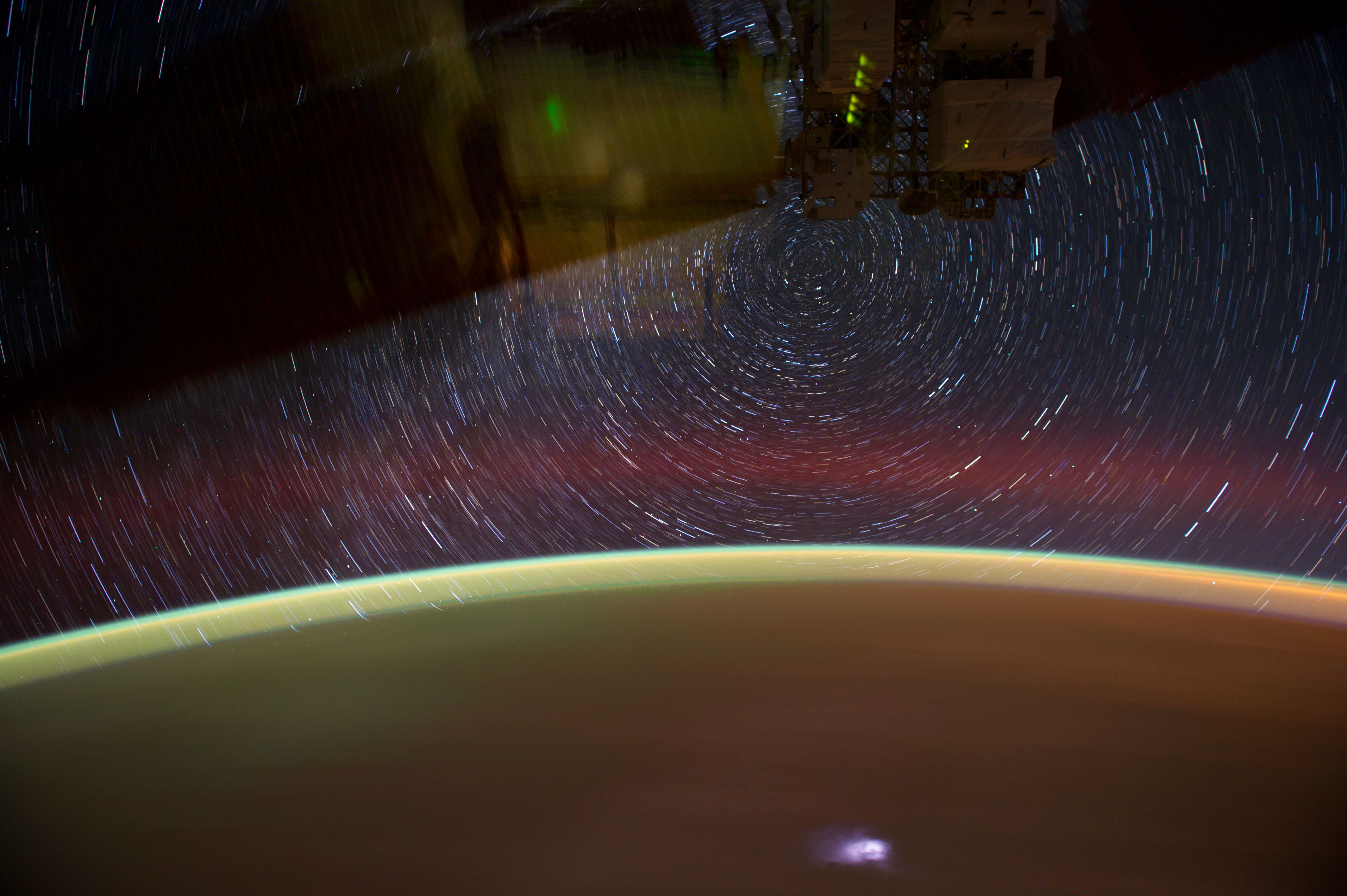 Star trail composite image created by International Space Station Expedition 30 crew member Don Pettit using images ISS030E271388 through ISS030E271392. Expedition 30 and Expedition 31 Flight Engineer Don Pettit provided information about photographic techniques used to achieve the images: "My star trail images are made by taking a time exposure of about 10 to 15 minutes. However, with modern digital cameras, 30 seconds is about the longest exposure possible, due to electronic detector noise effectively snowing out the image. To achieve the longer exposures I do what many amateur astronomers do. I take multiple 30-second exposures, then 'stack' them using imaging software, thus producing the longer exposure."